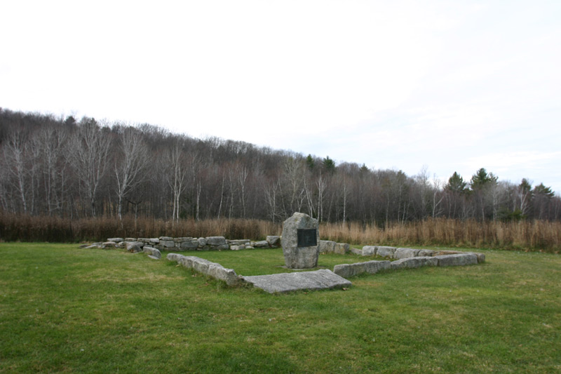 Description: Photograph of Harlan Fiske Stone's birthplace in Chesterfield, New Hampshire. Memorial in center erected 1948 "by his fellow townsmen". Source: Photograph taken by Jared C. Benedict on 20 November 2004. Full resolution original available at: Copyright: © Jared C. Benedict.